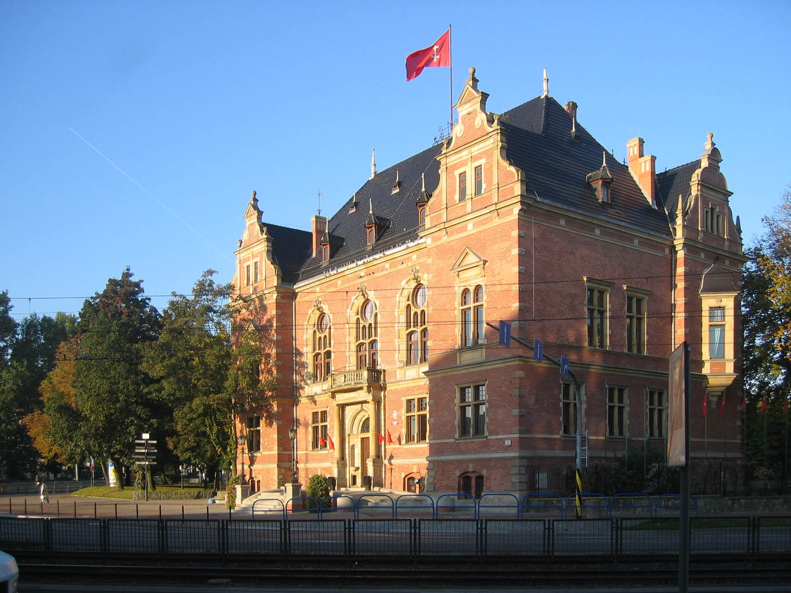 Gdańsk, Poland, the New Town Hall.